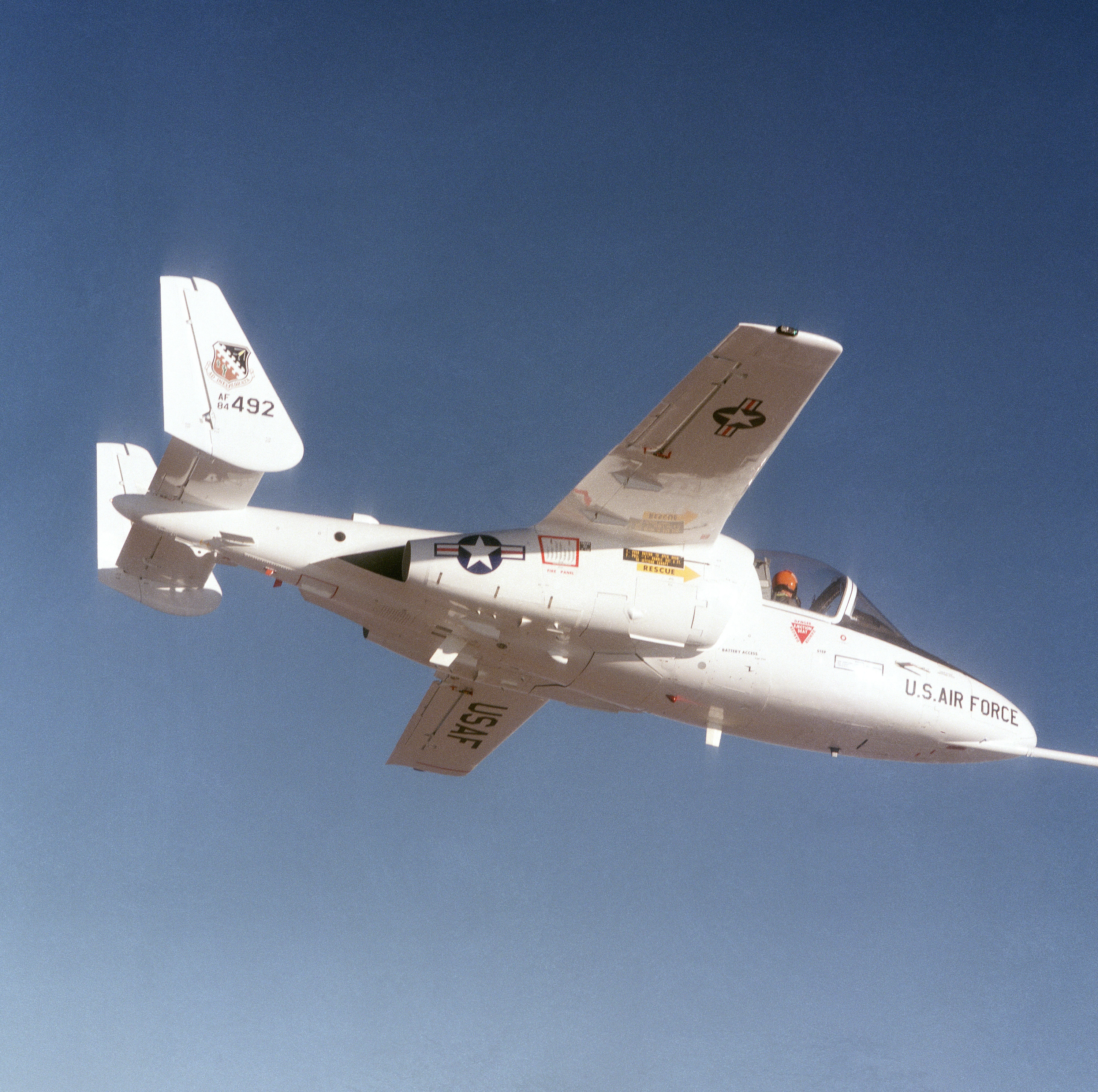 An air to air right underside view of a T-46 aircraft. Location: EDWARDS AIR FORCE BASE, CALIFORNIA (CA) UNITED STATES OF AMERICA (USA)